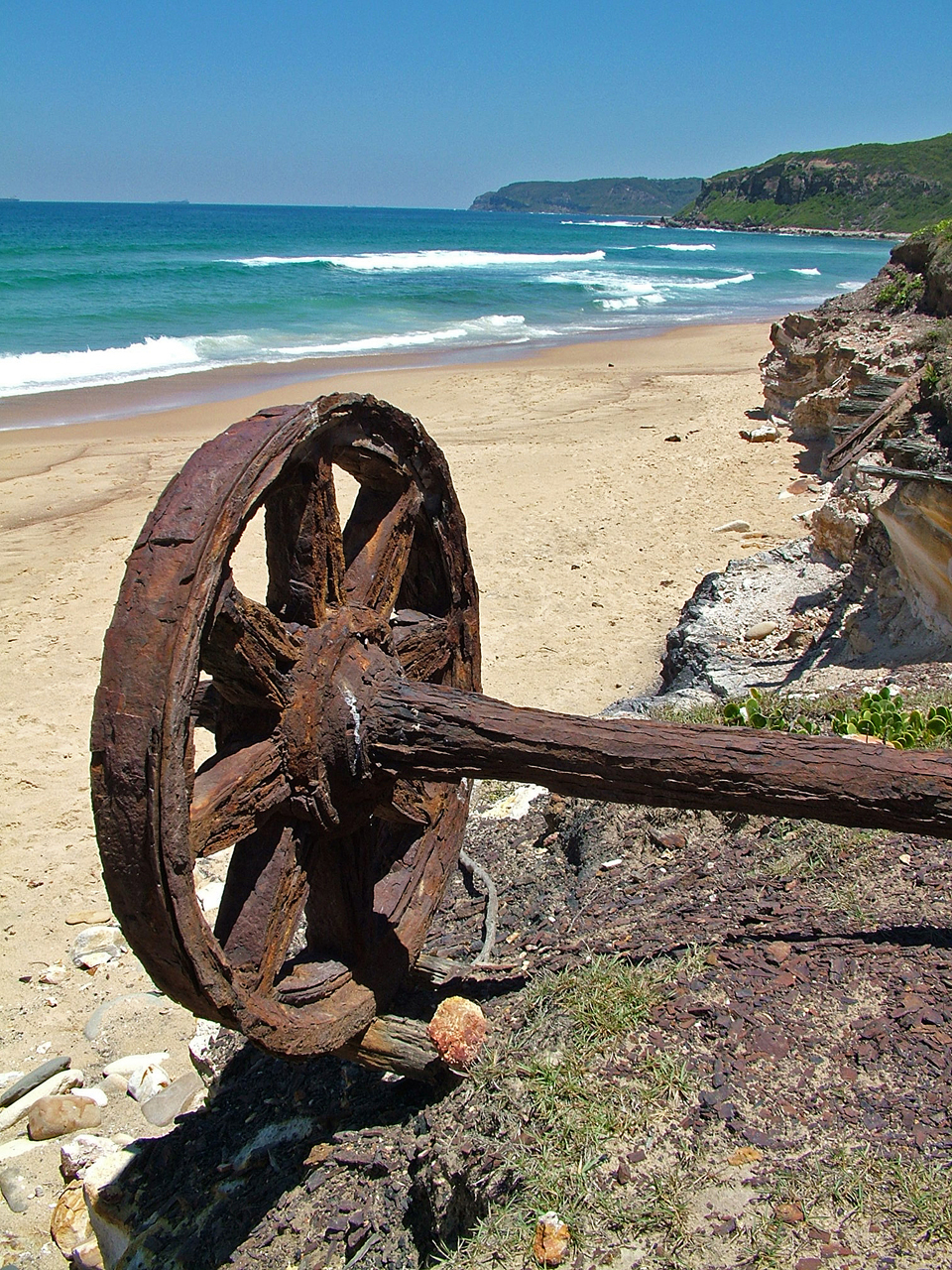 Remnants of a time gone by. Rusty coal carriage wheels located on Burwood Beach Newcastle